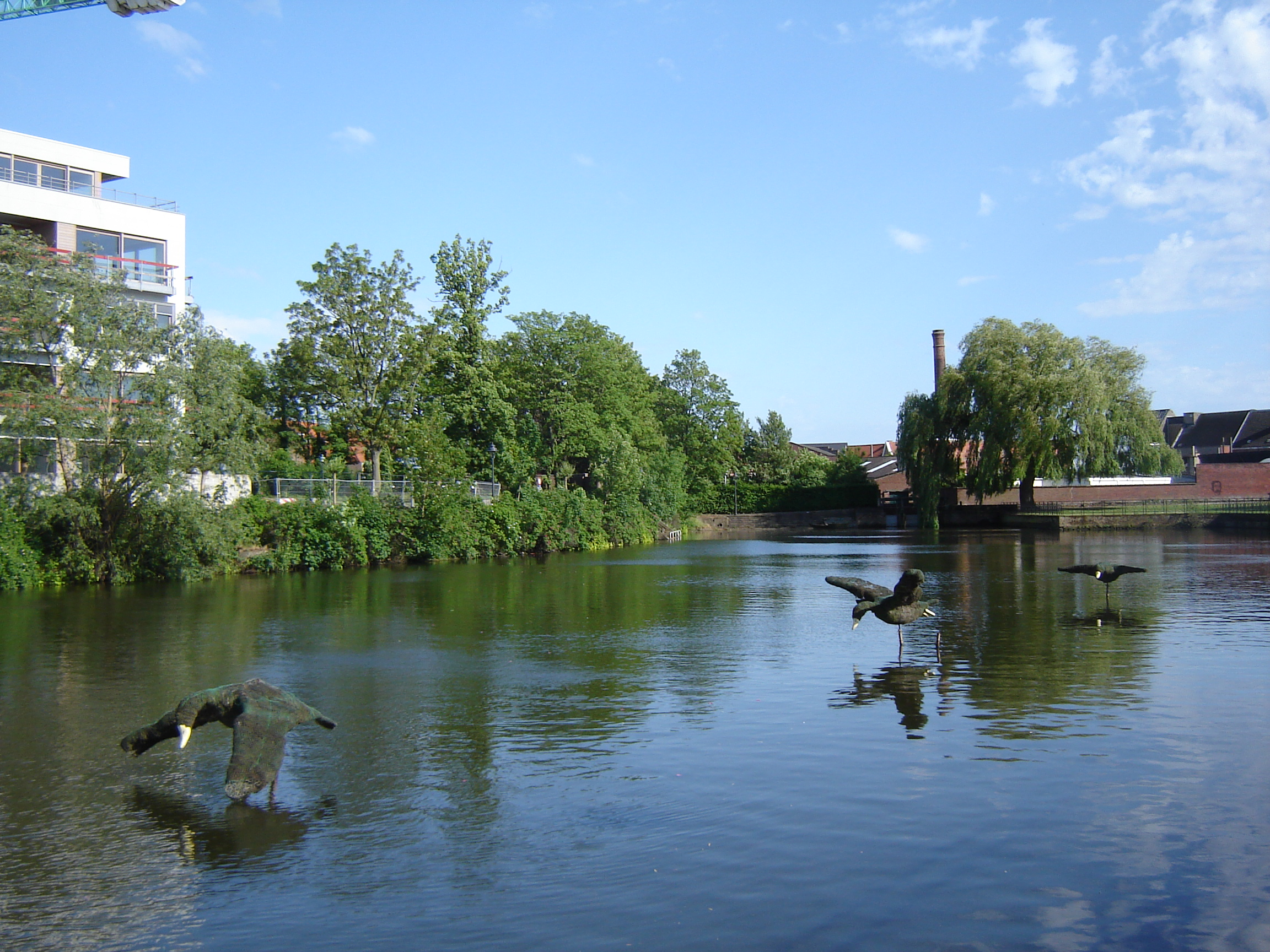 Grote Bassin basin, with around it the city park. Roeselare, West Flanders, Belgium